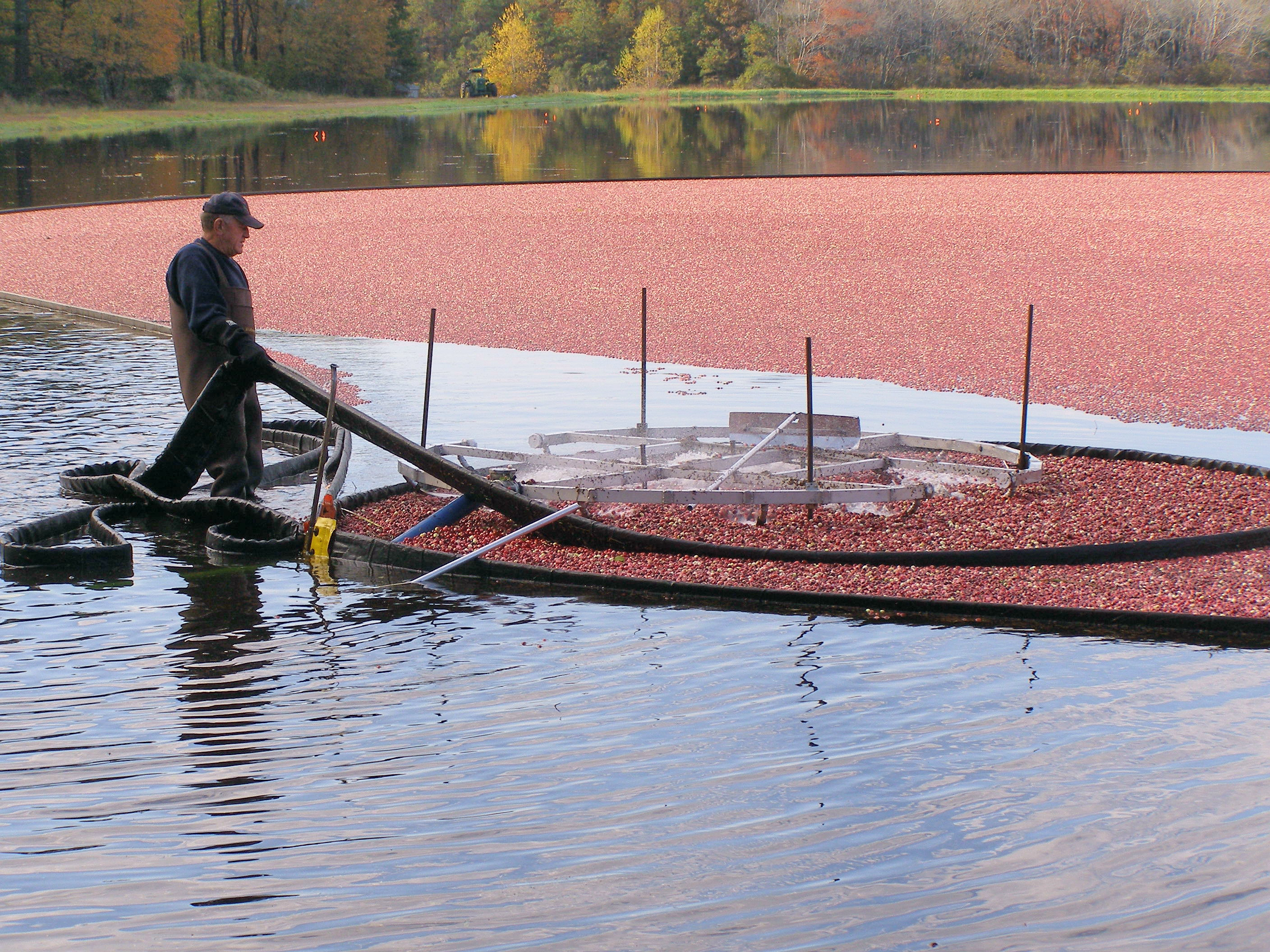 Cranberry harvest near Buzzards Bay, Massachusetts